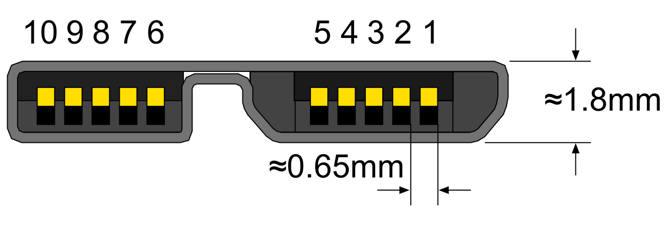 Pin assignment of USB 3.0 Micro B plug No.1:power line (VBUS) No.2:USB2.0 D- No.3:USB2.0 D+ No.4:USB OTG's ID line No.5:GND No.6:USB3.0 Sending Data line- No.7:USB3.0 Sending Data line+ No.8:GND No.9:USB3.0 Receiving Data line- No.10:USB3.0 Receiving Data line+